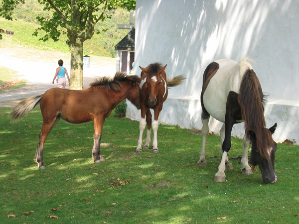 Pottok mare and two foals near Ainhoa